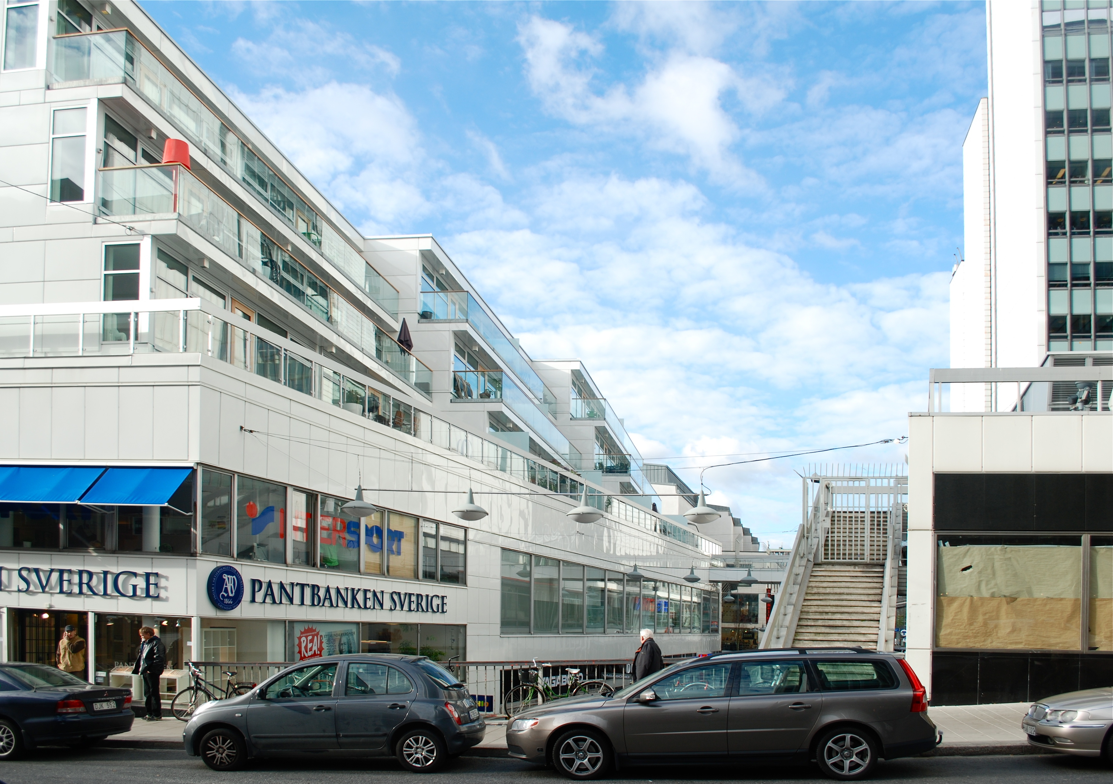 Sergelgatan from Mäster Samuelsgatan. New apartments on the roofs of the modernist commercial buildings (Hötorgscity) in the center of Stockholm.